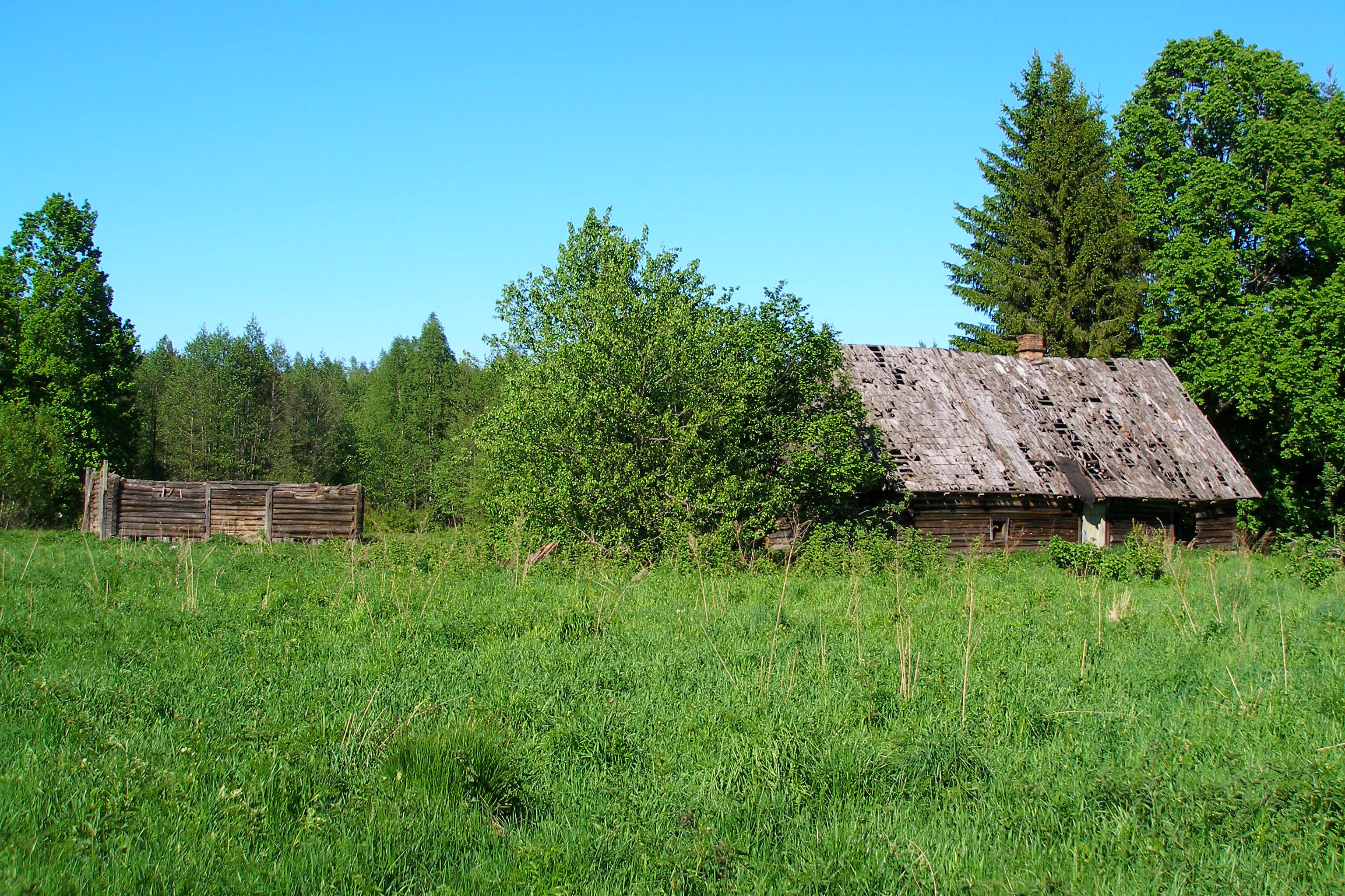 Rehessaare, a derelict forest ranger farm in Estonia. Nowadays part of Alam-Pedja Nature Reserve.